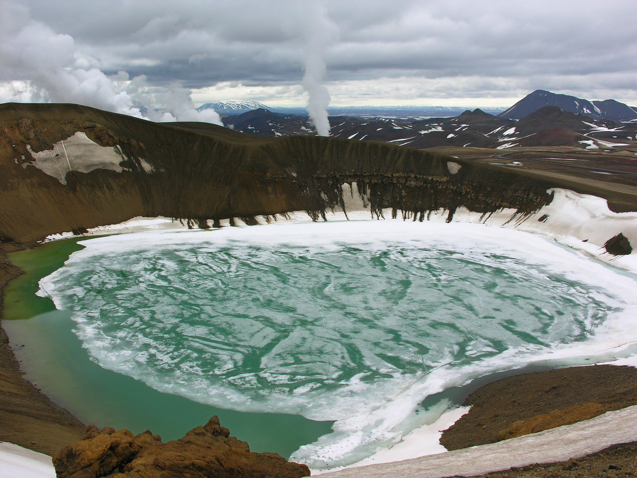 Iceland, Viti Crater lake